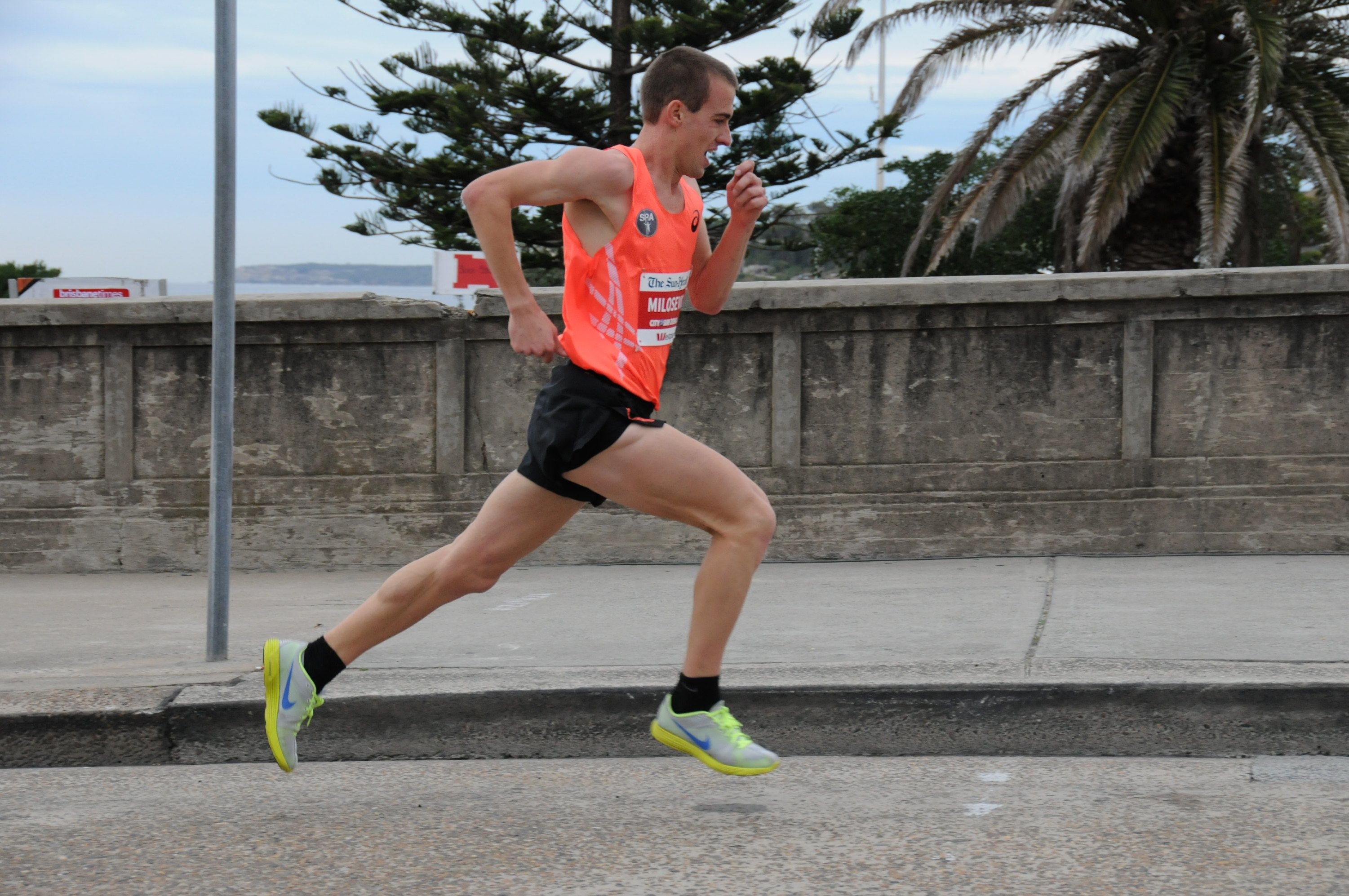 2nd Place - Brad Milosevic